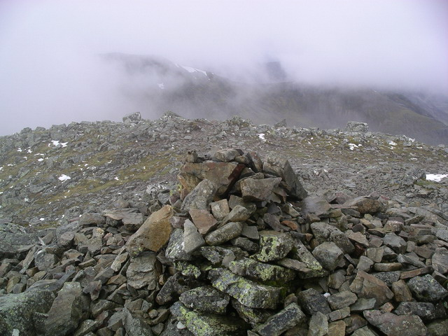 Meall a' Bhuiridh : Munro No 45 The 1108m summit cairn. The ridge to Sron na Creise can just be seen under the clouds.